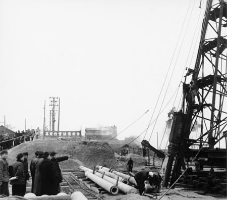 Soviet engineers at the construction site of Wuhan Yangtze River Bridge